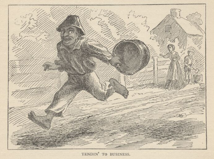 Illustrations de The Adventures of Tom Sawyer, 1876.